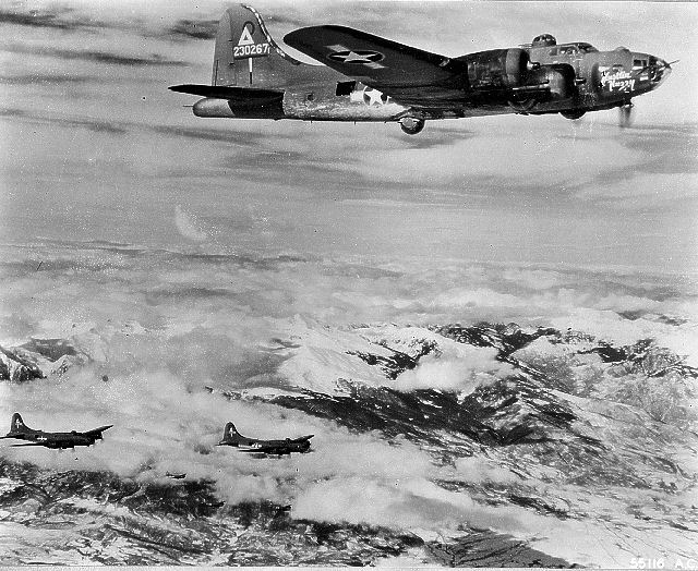 Boeing B-17F-95-BO Flying Fortress/42-30267 of the 97th Bombardment Group (8th AF)